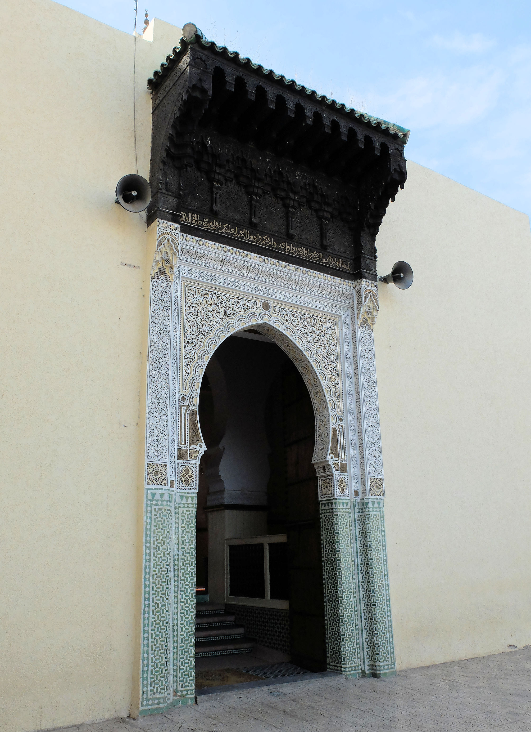 Entrance portal of the Bou Jeloud Mosque, Fes.